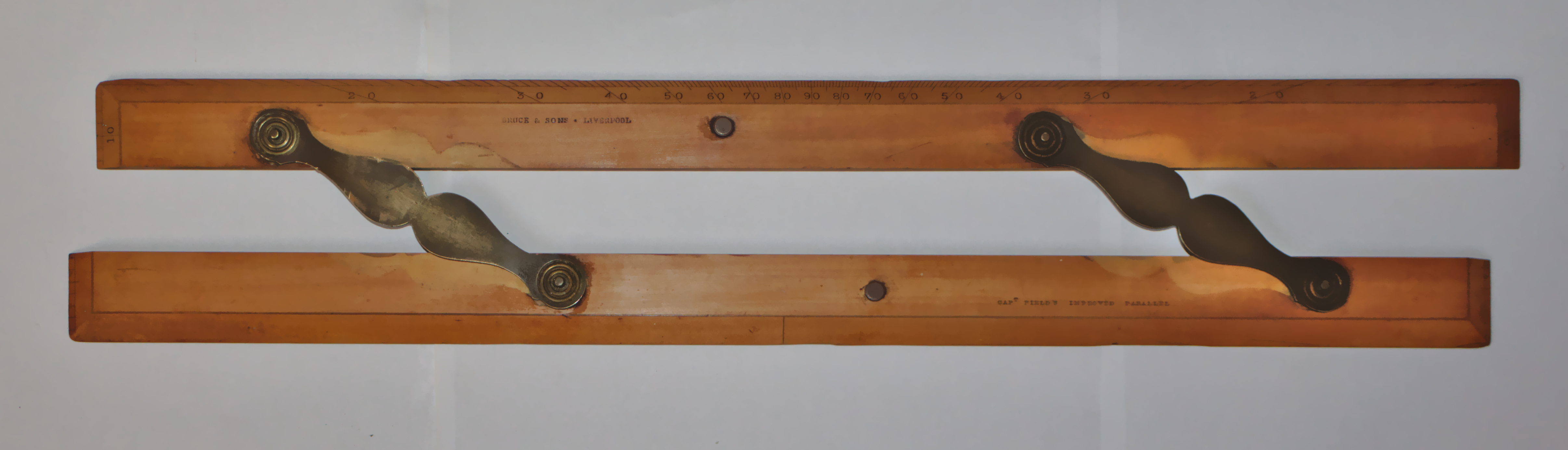 Captain Field's Improved Parallel Rule, design c. 1854. Date for this model probably late 19th/early 20th century.